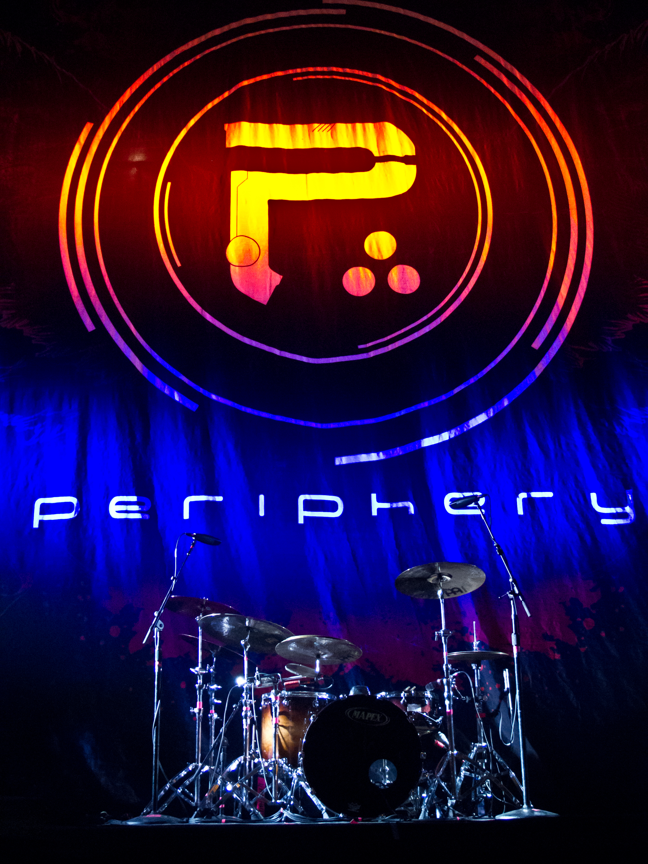 Drums and logo of Periphery before a concert.